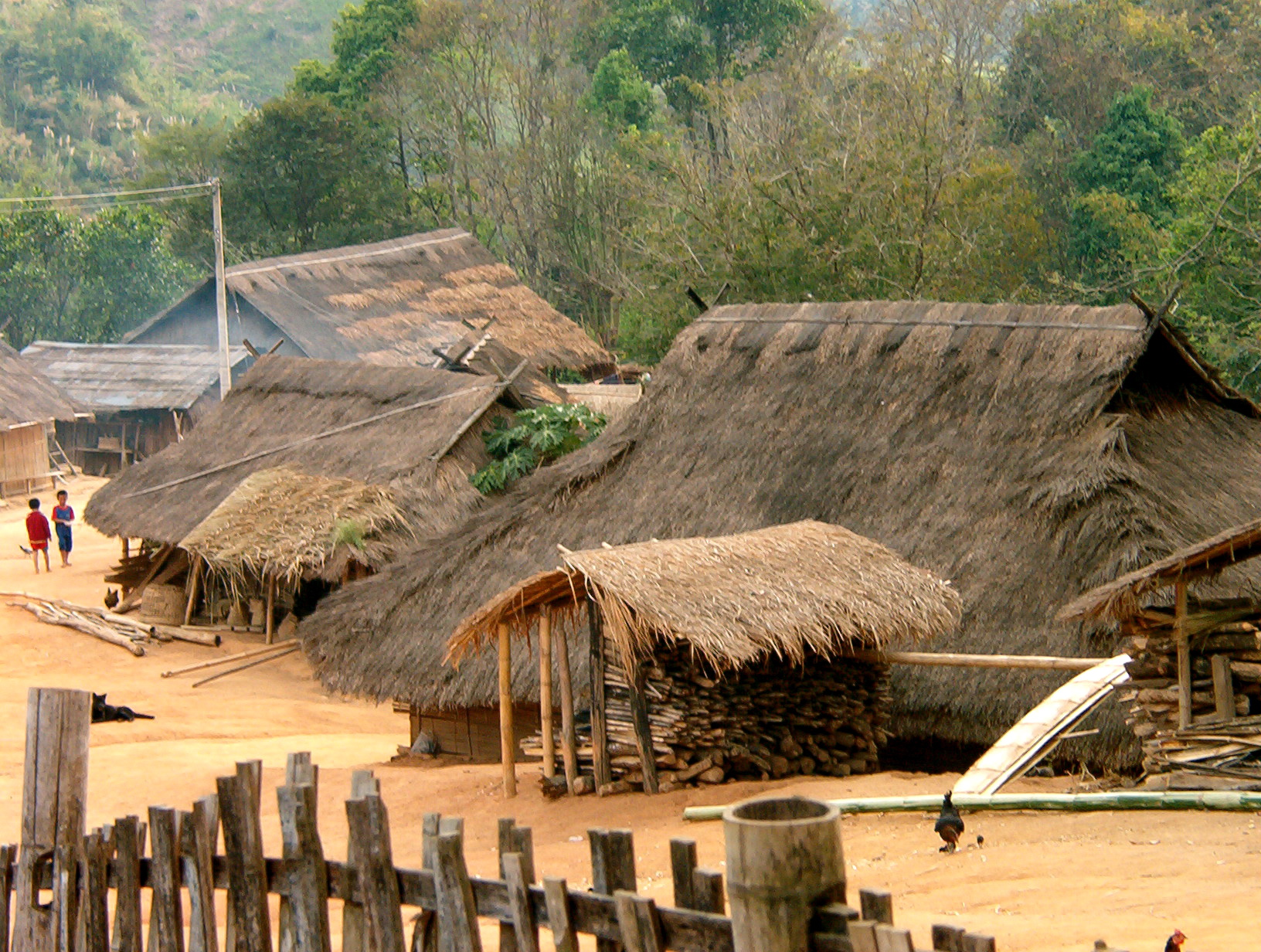 The thatched roofs of the Akha hill tribe village, in northern Thailand. 22:48, 11 September 2005 Sputnikcccp 1632x1232 (1068479 bytes) (The thatched roofs of the Akha hill tribe village, in northern Thailand. Self|GFDL )